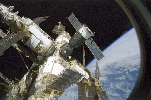 A view of the Russian space station Mir from the window of Space Shuttle Atlantis, showing the station's Kvant-2, Priroda, Spektr & Kristall modules and the docked Soyuz TM-26 capsule during STS-86.